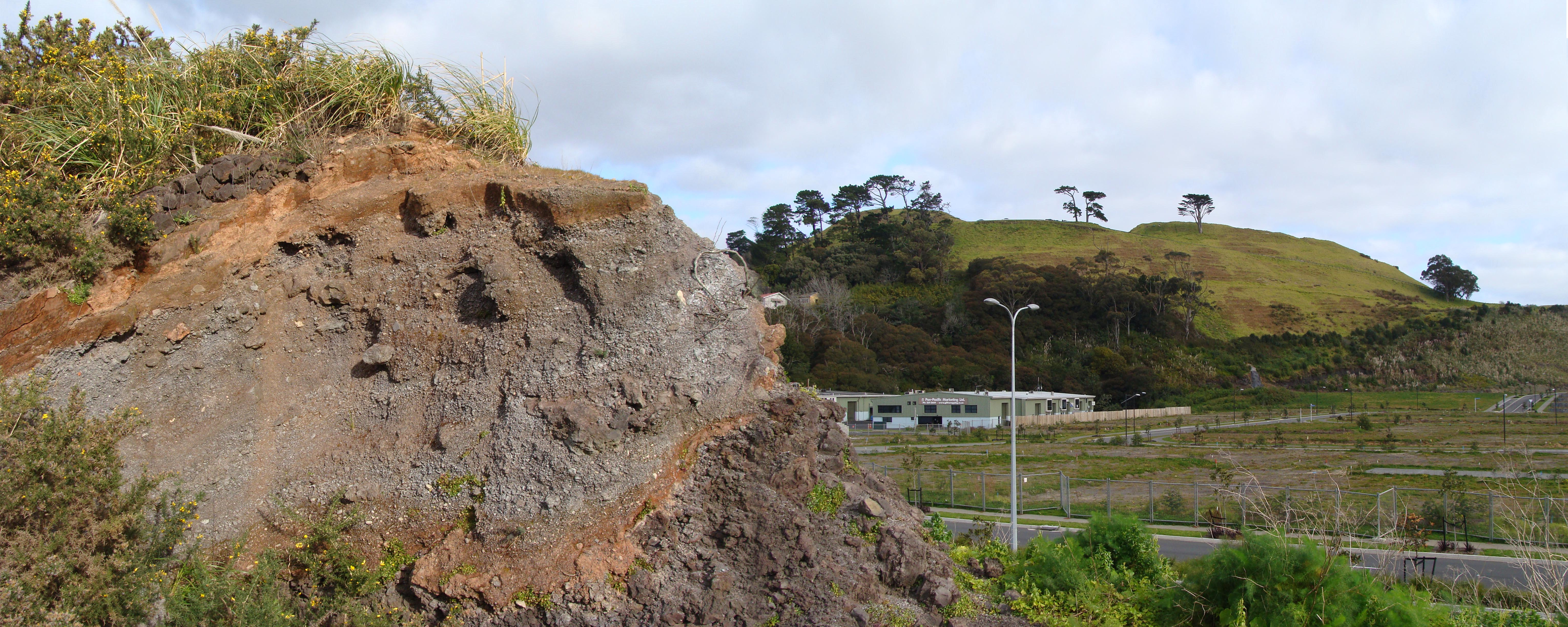 Quarried remnant of Purchas Hill volcanic scoria cone, with Mount Wellington in the background. Layers of ash and scoria are visible. Auckland, New Zealand.